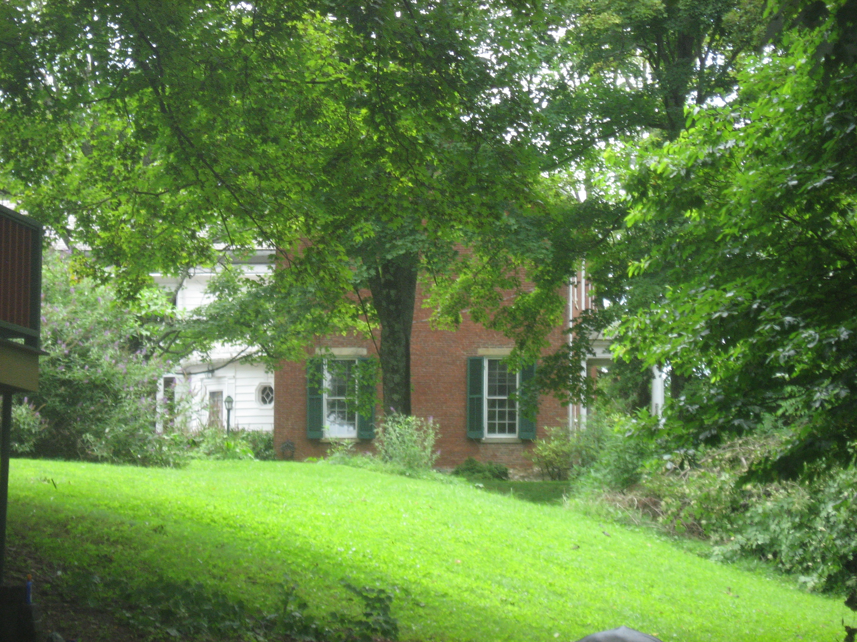 Eastern side of the Wells-Schaff House, located at 500 S. Wells Street along West Virginia Route 2 in Sistersville, West Virginia, United States. Built in 1832, it is listed on the National Register of Historic Places.